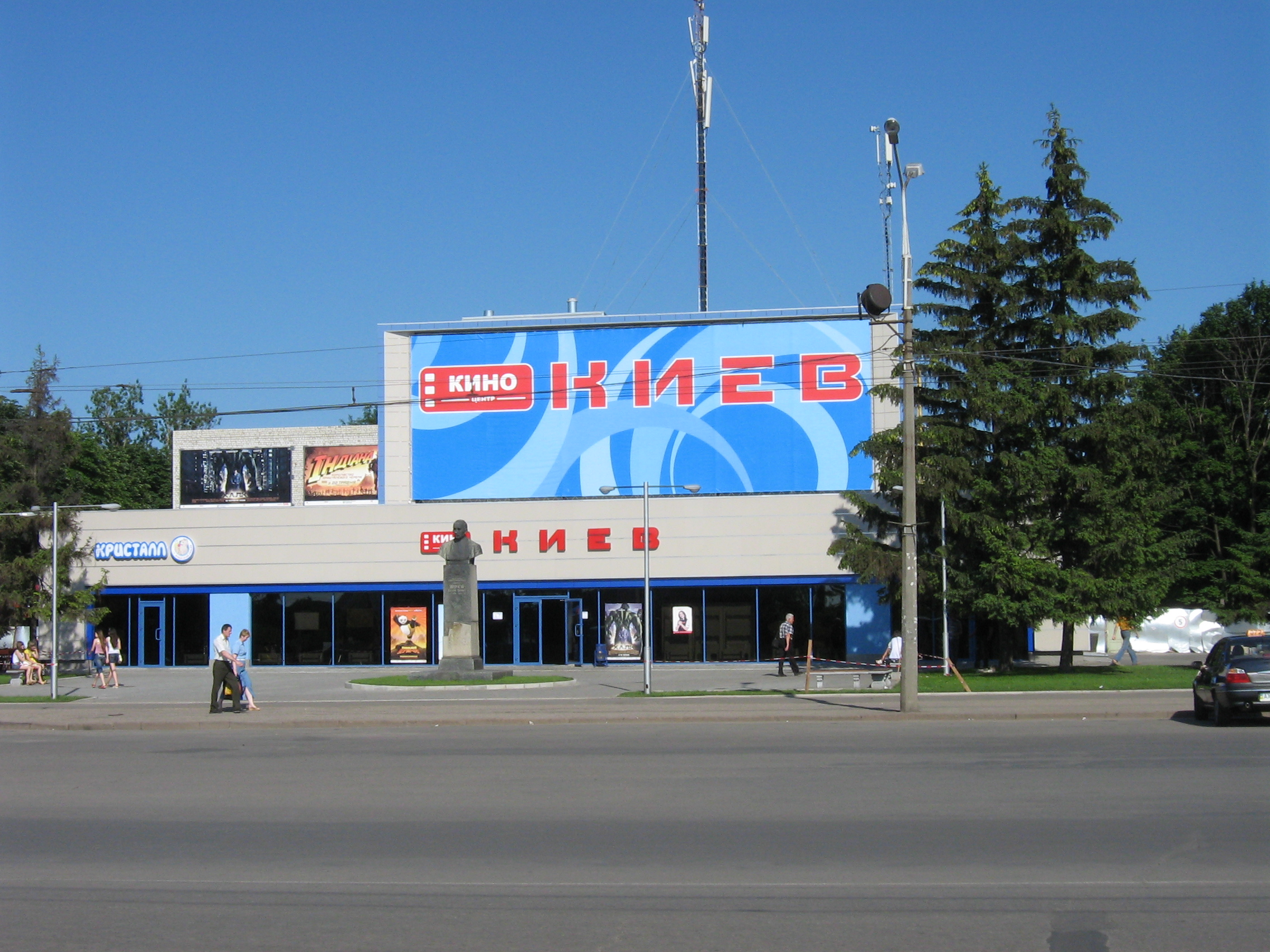 Cinema "Kiev" to Marshal Zhukov avenue in Kharkov.